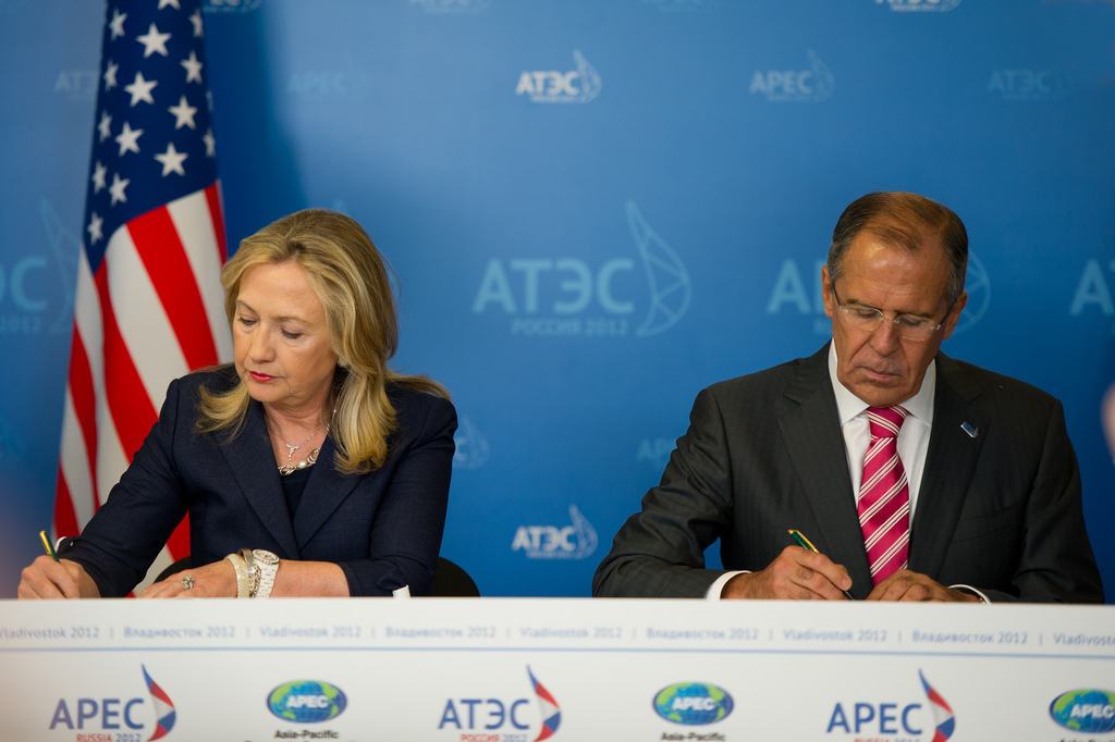 U.S. Secretary of State Hillary Rodham Clinton participates in a Signing Ceremony with Russian Foreign Minister Sergey Lavrov during the Asia-Pacific Economic Cooperation Leaders' Week in Vladivostok, Russia, September 8, 2012. [State Department photo by William Ng/Public Domain]